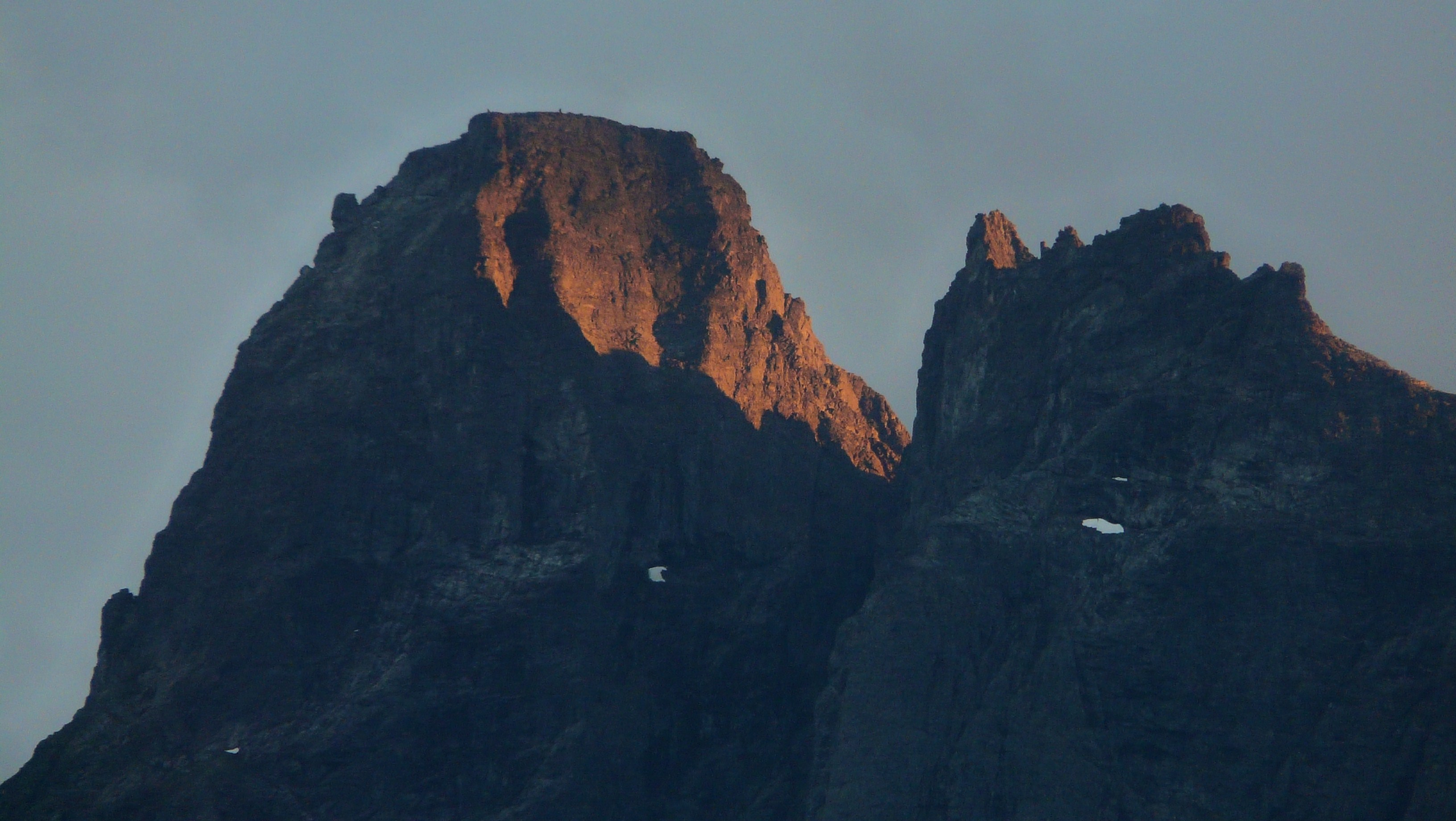 The summits of Kongen and Dronninga in evening light as seen from the north from Mjelva near by Åndalsnes in 2008 August.